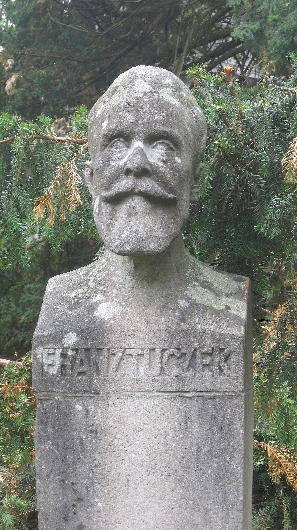 Bust of Franz Tuczek, former medical director of psychiatrics at Marburg university